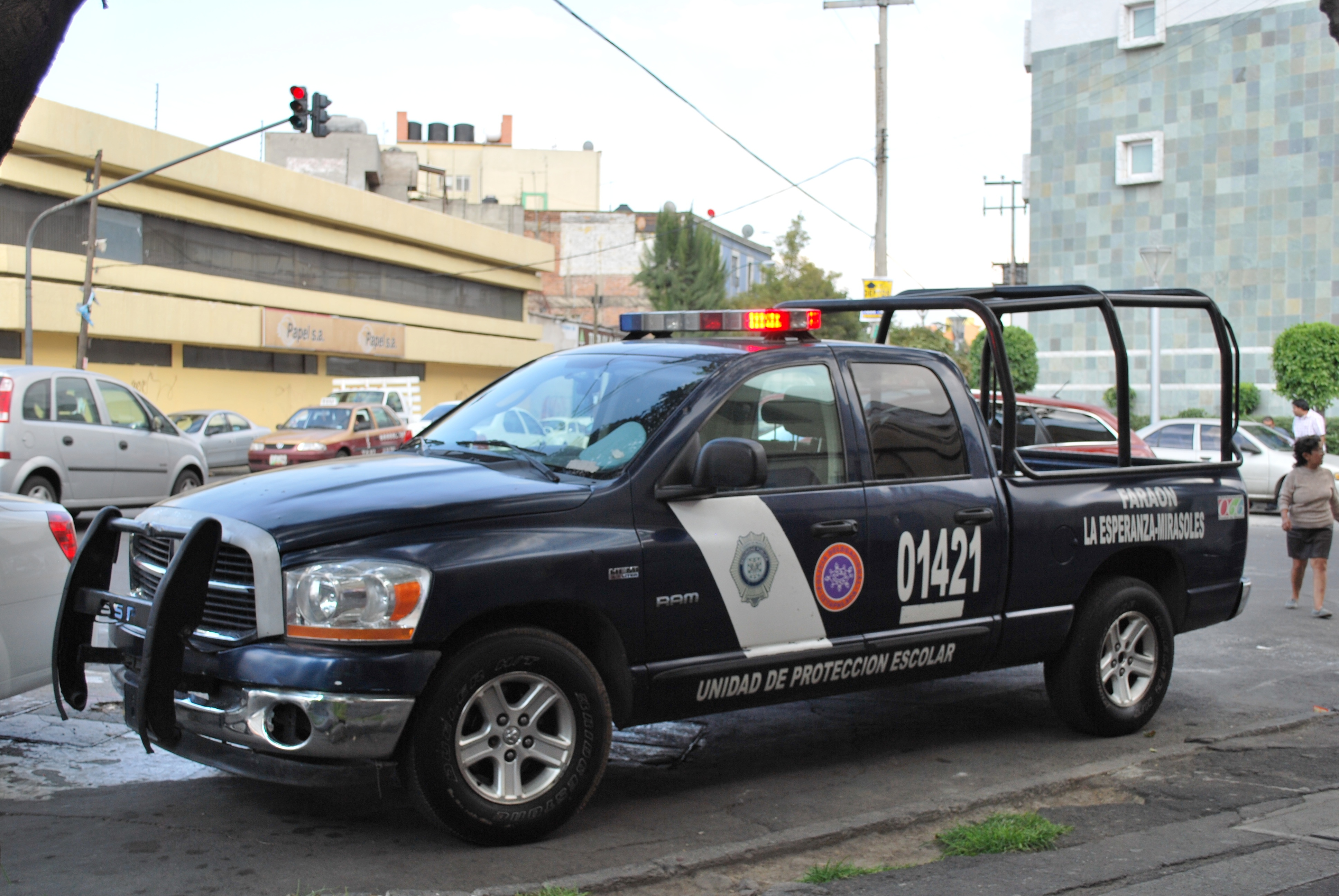 Mexico City police pick up truck. This one is assigned to the division that protects schools. Taken in Colonia Doctores on Dr. Liceaga Street.